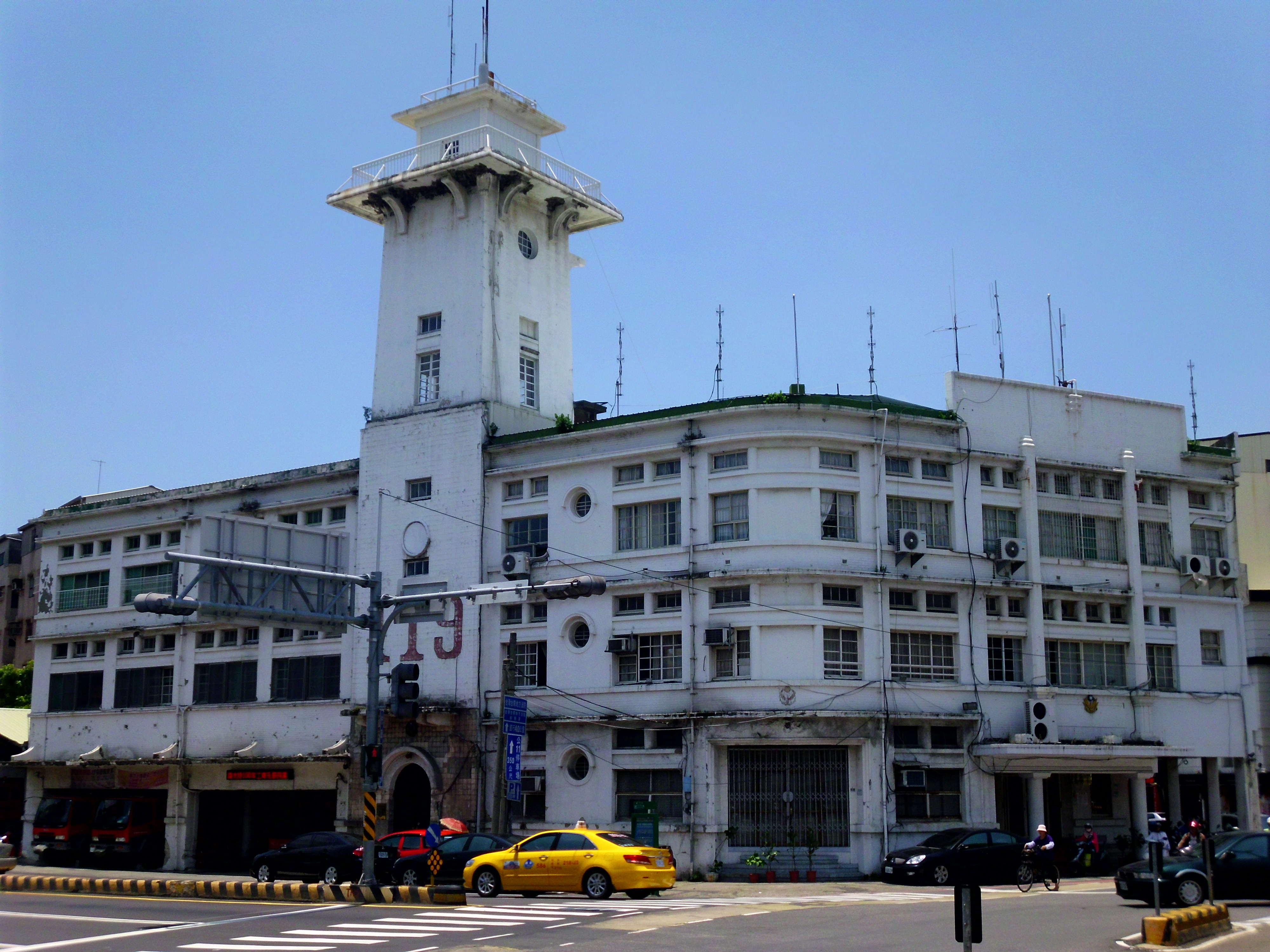 Zhongzheng Station, 7th District HQs, Tainan City Government Fire Bureau.